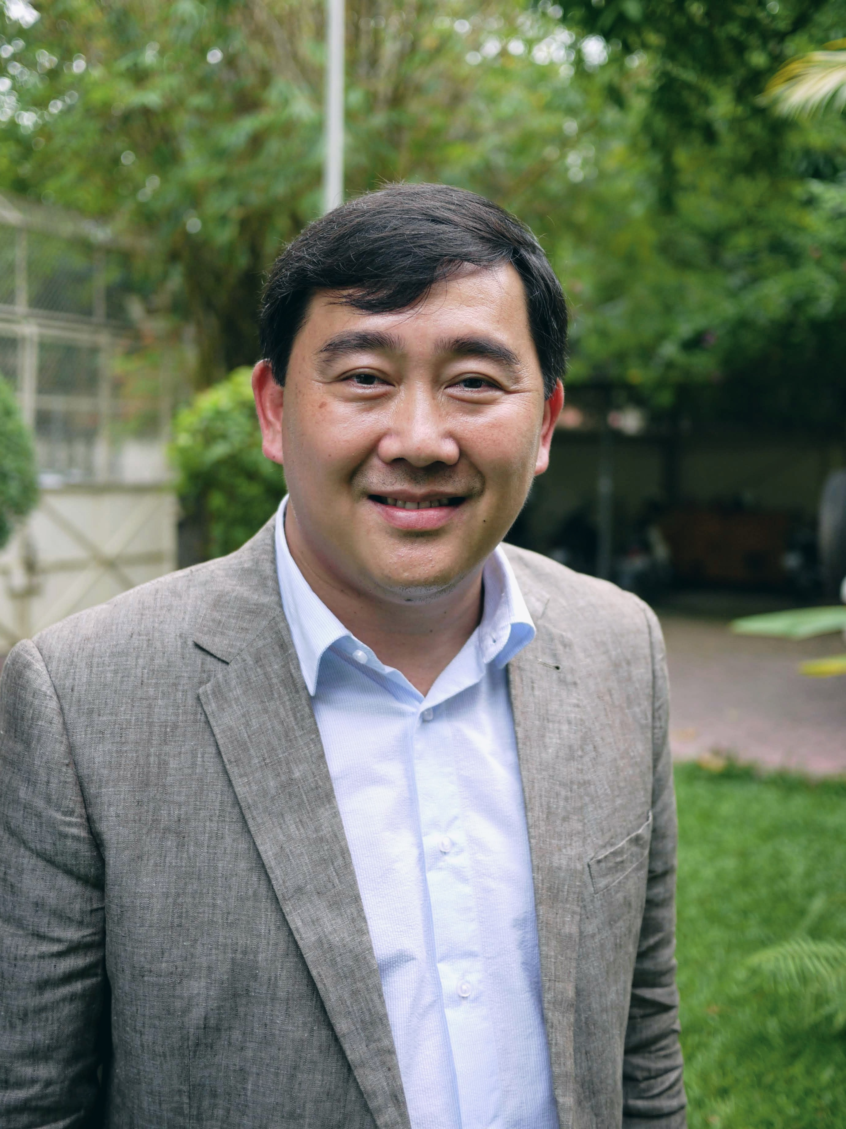 Suos Yara serves as a Central Committee Member, a vice-chairman of the Commission for External Relations, and a Spokesperson for the Cambodian People's Party (CPP). He also represents the Preah Vihear constituency as an elected member of the National Assembly of Cambodia.